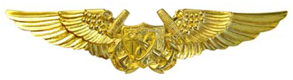 Naval Flight Officer Astronaut insignia, worn by non-pilot air crew officers in the U.S. Navy that pass astronaut training. See U.S. Navy Uniform Regulations: 5201 - Breast Insignia.